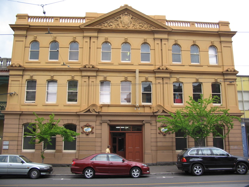 Central Hall, located on Brunswick Street, Fitzroy, Victoria, Australia.